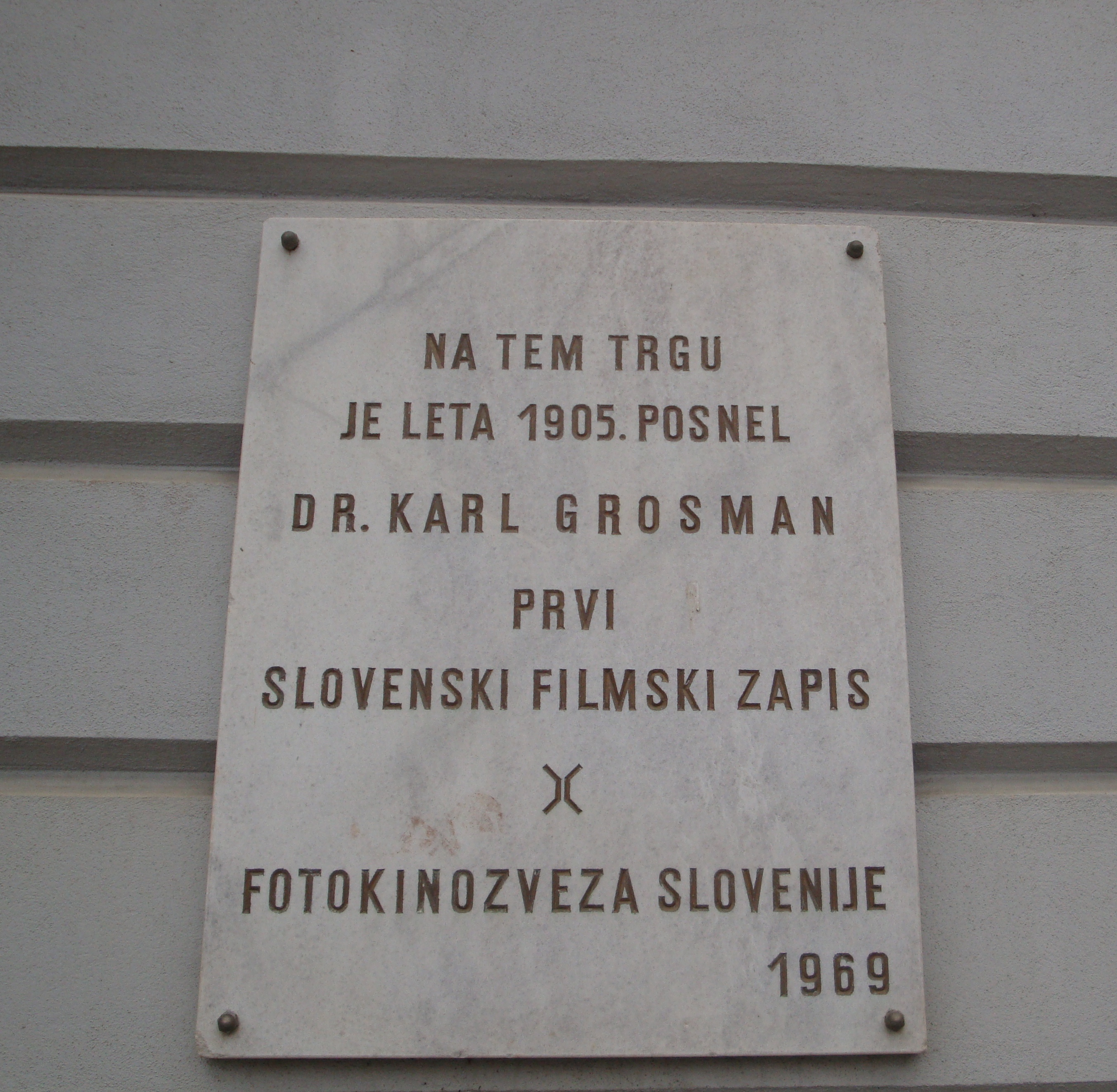 Memorial plate, Ljutomer, Slovenia: "At this site dr. Karl Grosman shot the first Slovene film recording in 1905. Photographic and Cinematographic Association of Slovenia, 1969."